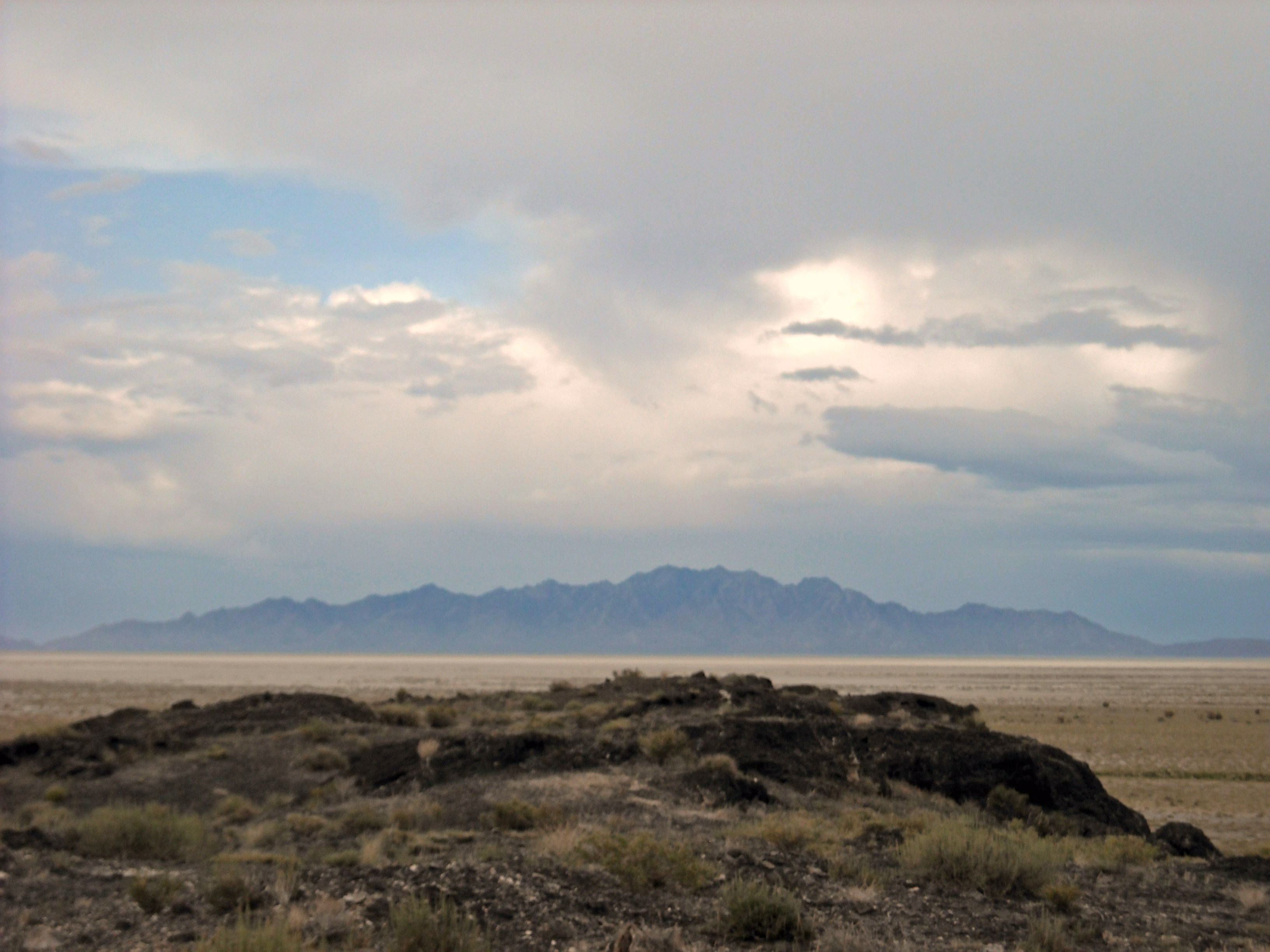 Looking north toward Dugway Proving Ground at Salt Lake City, Utah, USA.